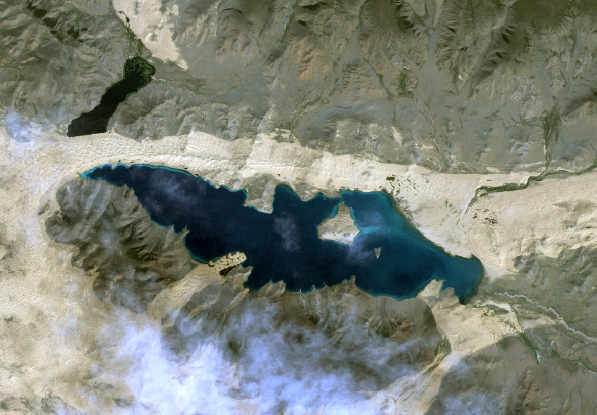 Khar-Nuur lake, Zavkhan aimag, Mongolia, satellite image LandSat-7, near natural colors, 30 m resolution